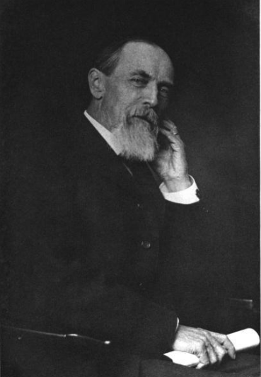 Portrait of Eugene W. Hilgard. Depicted person: Eugene W. Hilgard – American geologist